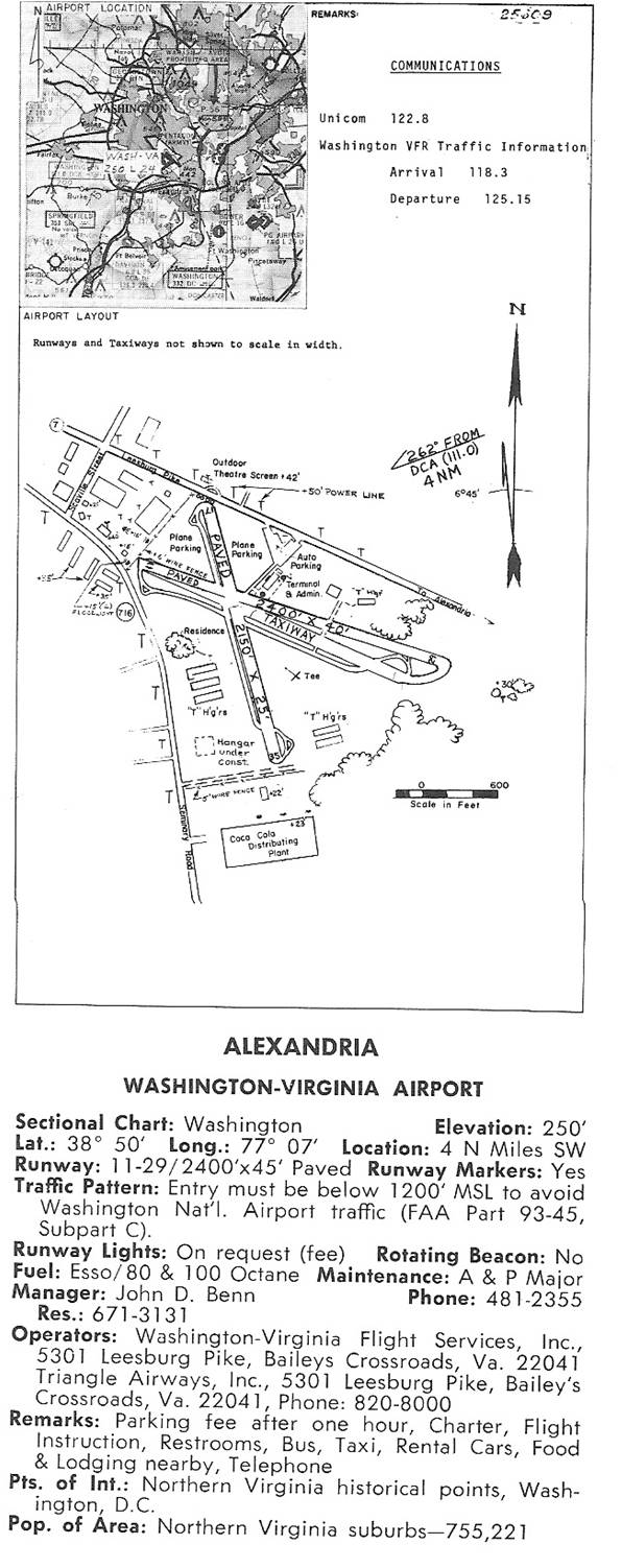 Sketch from the a handbook titled "Virginia Airport Directory 1970-1971" published by the Division of Aeronautics, State Corporation Commission, Richmond, Virginia. There are no copyright markings in this pamphlet published by a state government agency.